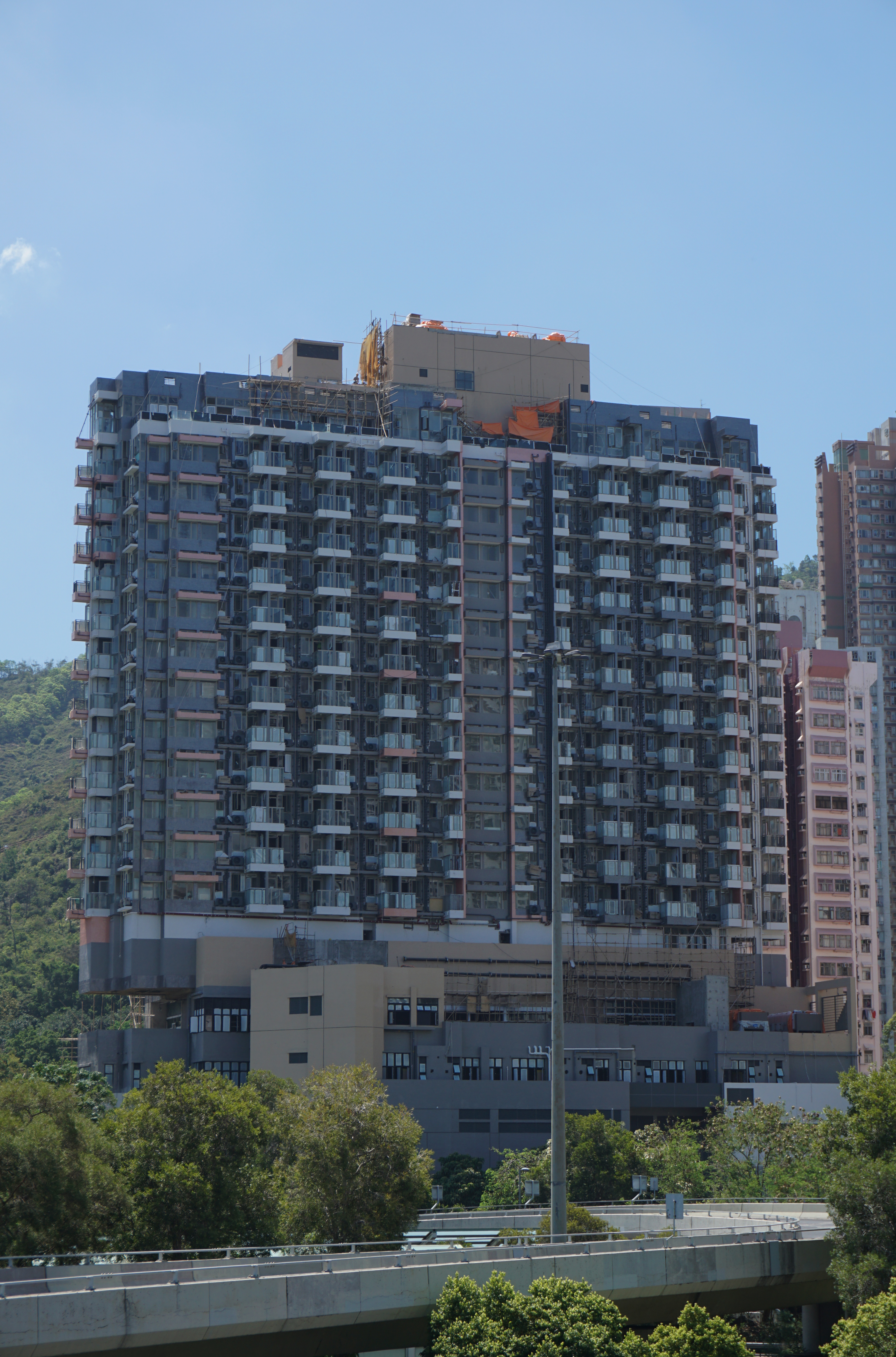 T Plus in Tuen Mun, Hong Kong.